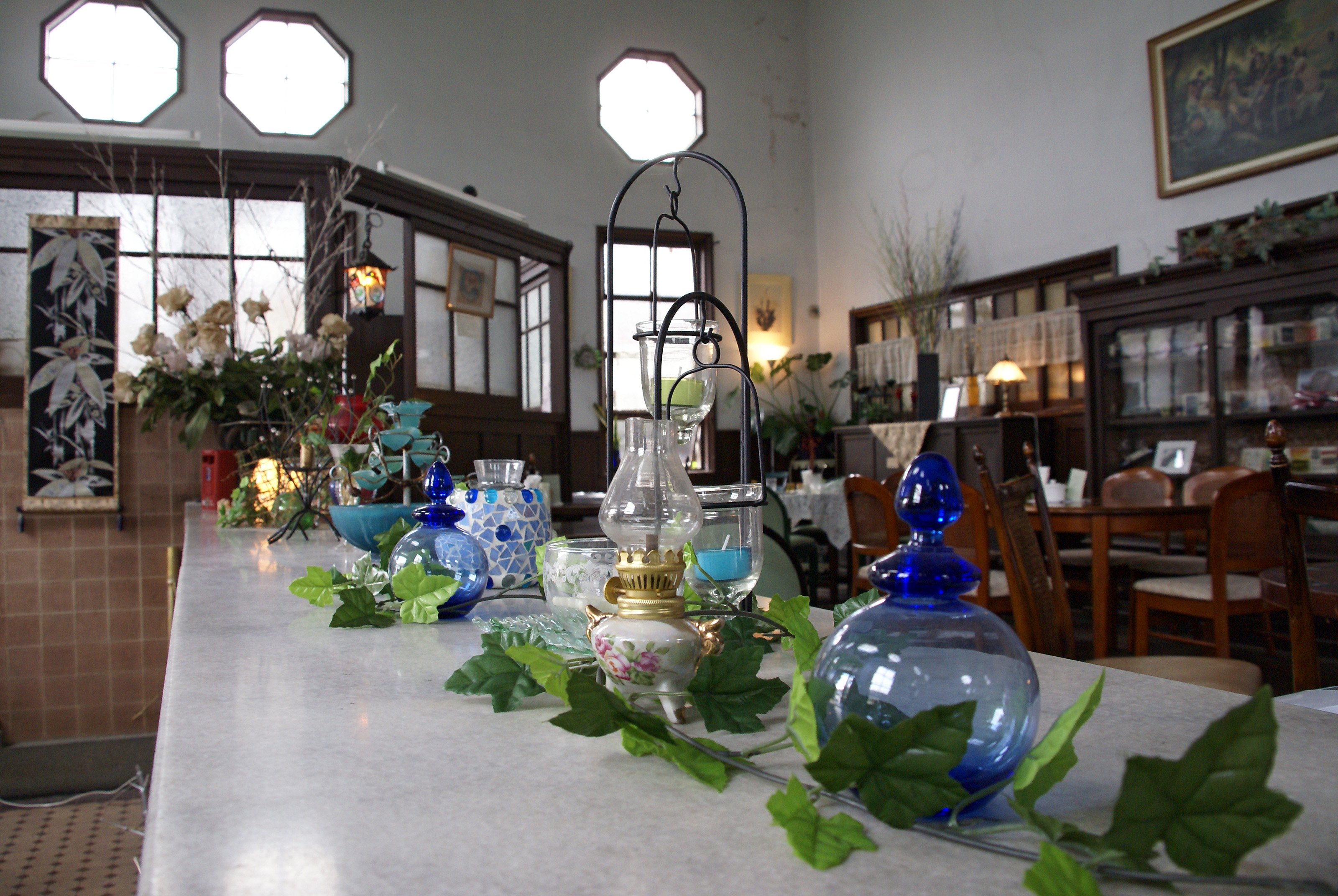 Old Hiketa Post Office in Hiketa, Higashikagawa, Kagawa prefecture, Japan